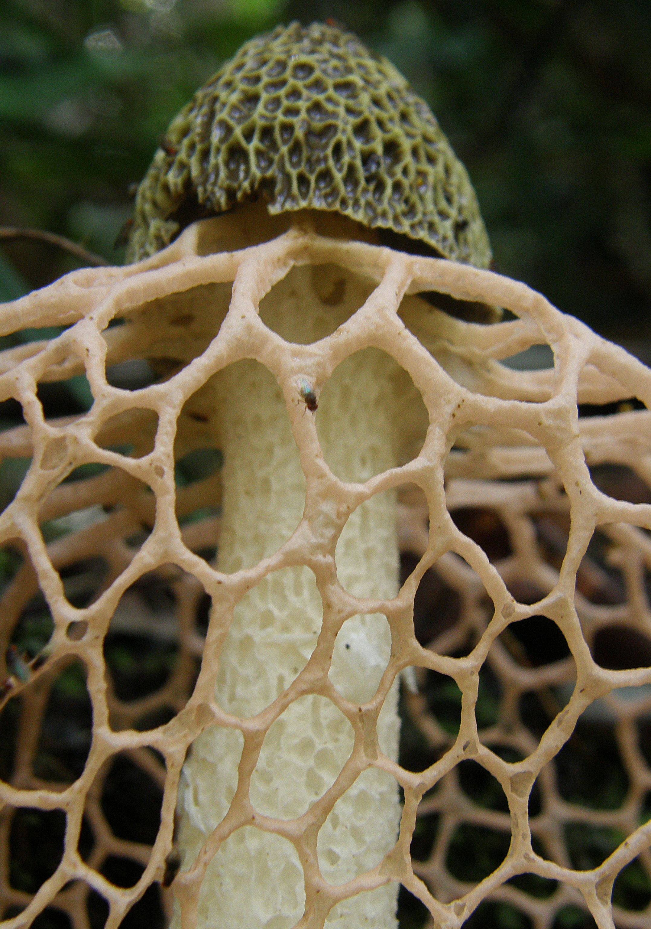 Bridal Veil Stinkhorn (Phallus indusiatus), in bahasa we called Jamur Tudung Pengantin. unique mushroom because of its shape. Can be found throughout Indonesia and other tropical regions. in China and Japan be used to food and medicine, unfortunately in Indonesia untapped.